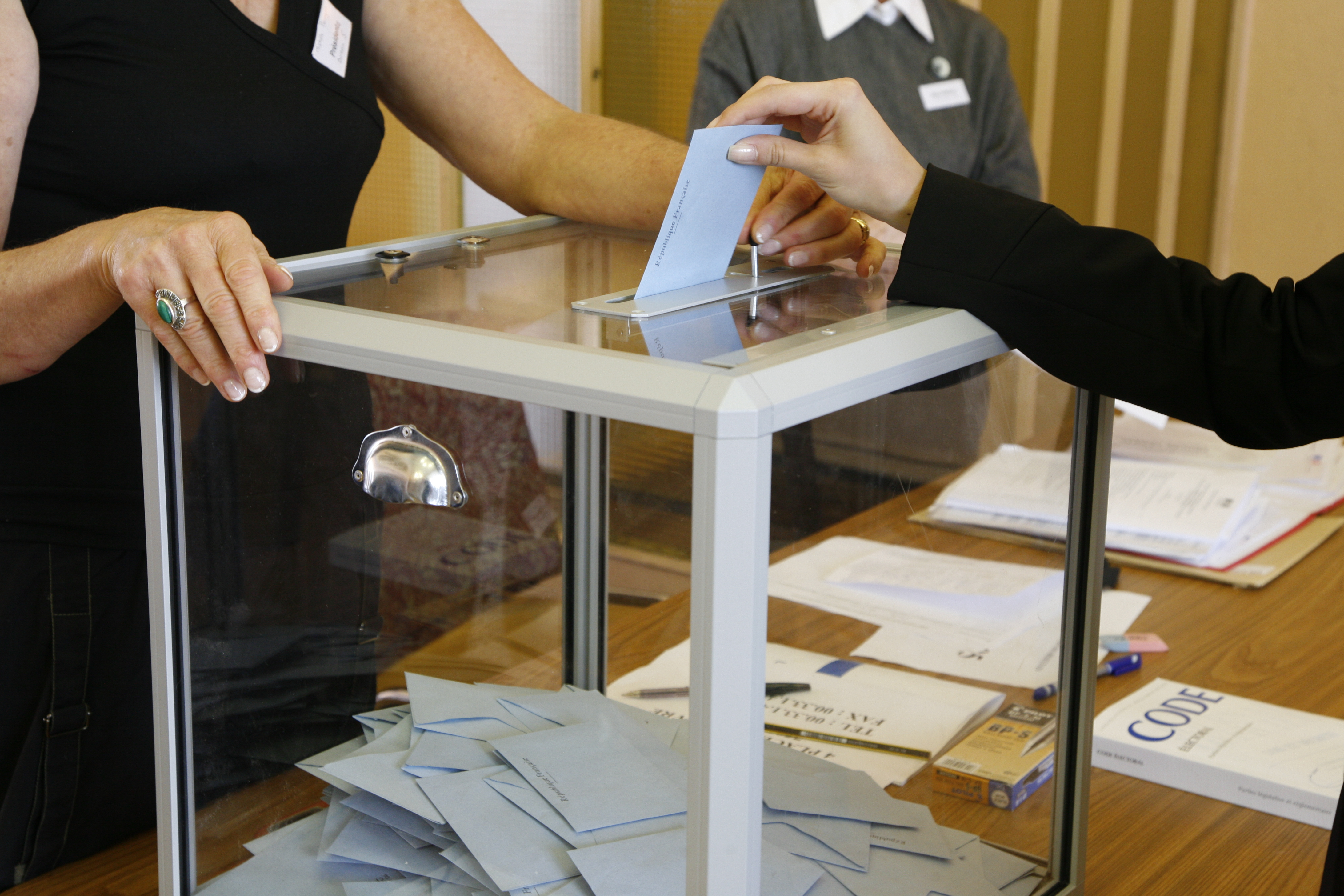 Second round of the French presidential election of 2007.